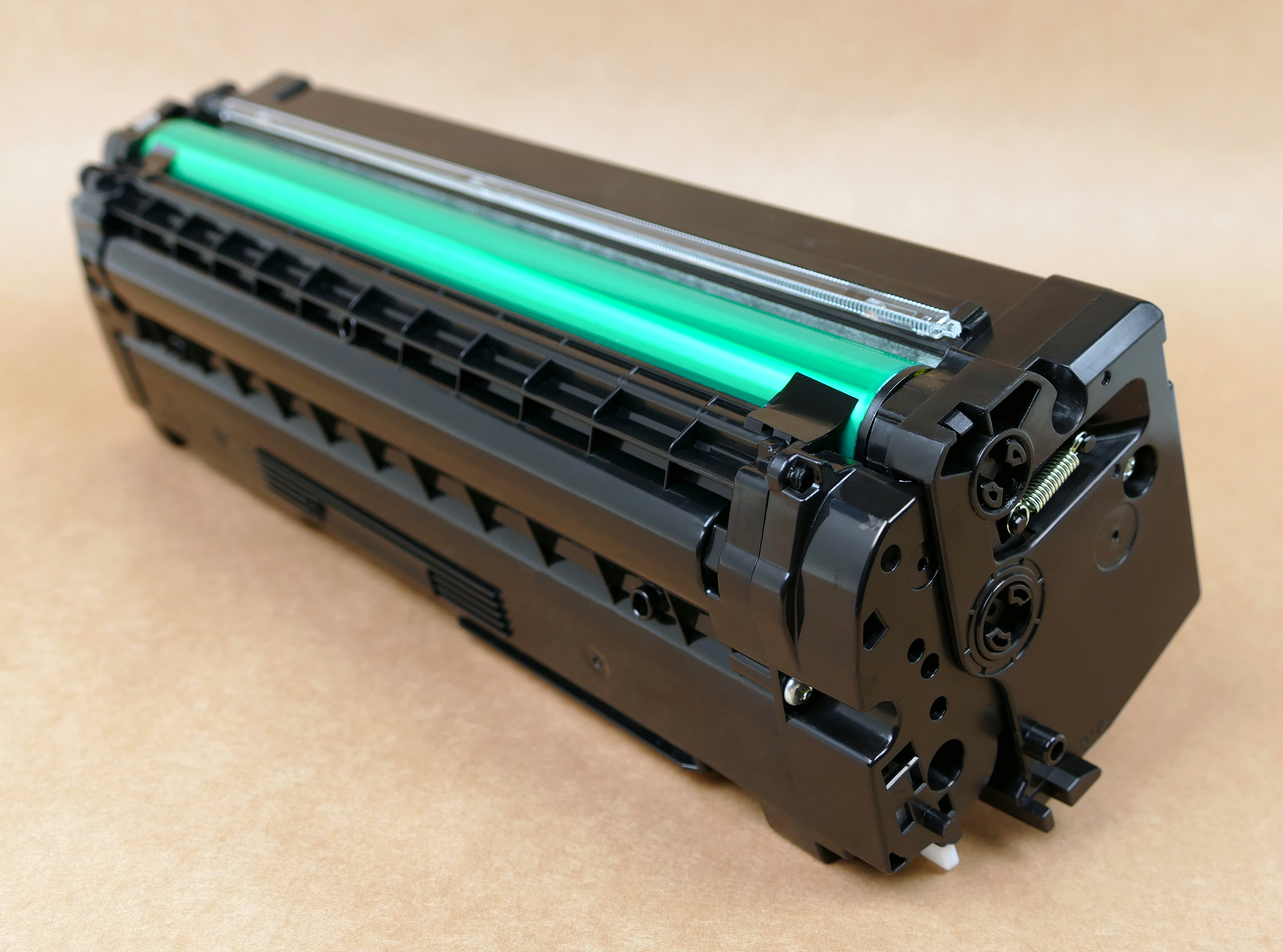 Side view of a used Samsung CLT-K506L black laser toner cartridge for a CLX-6260FD printer.